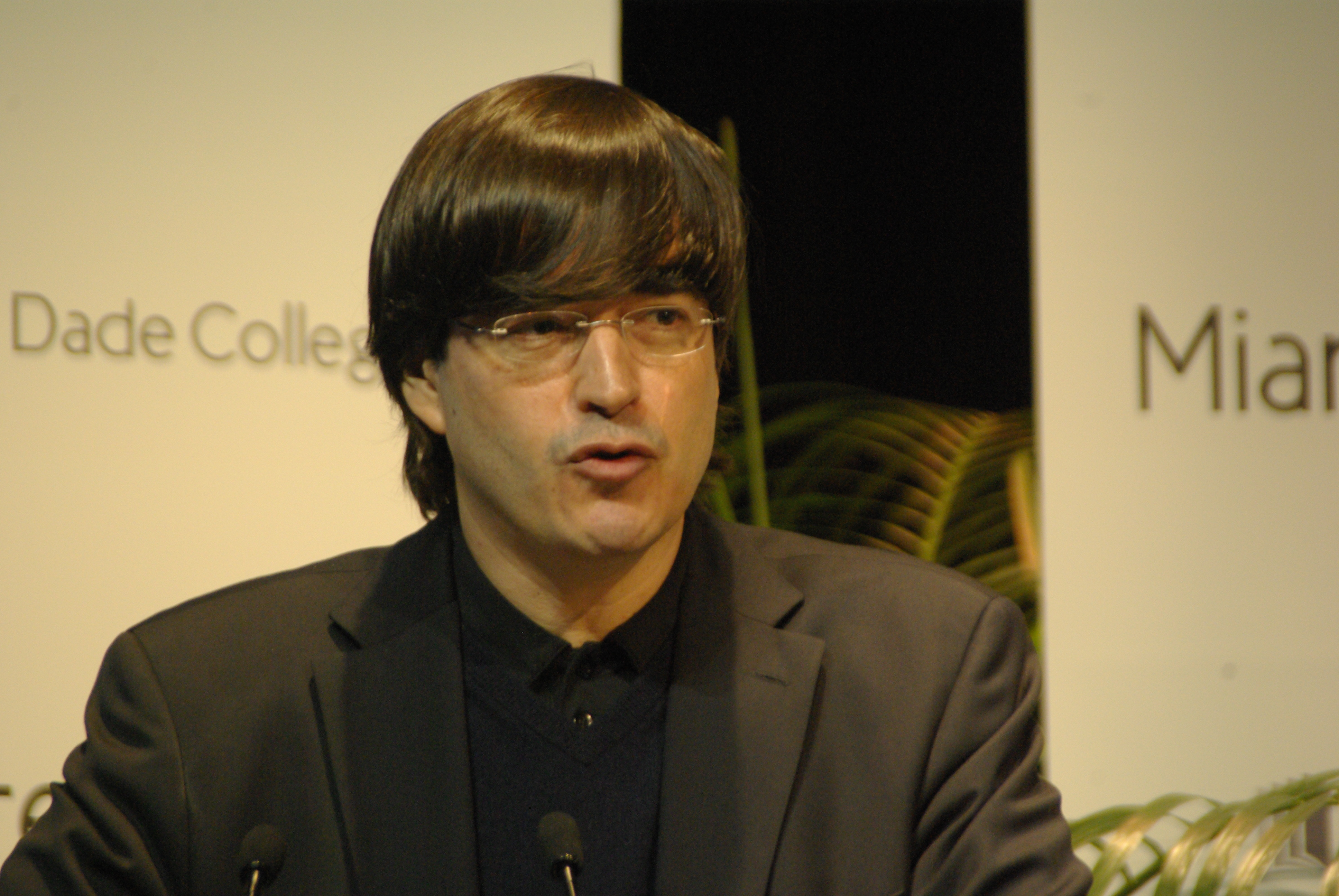 Peruvian writer Jaime Bayly at the Miami Book Fair International 2011.